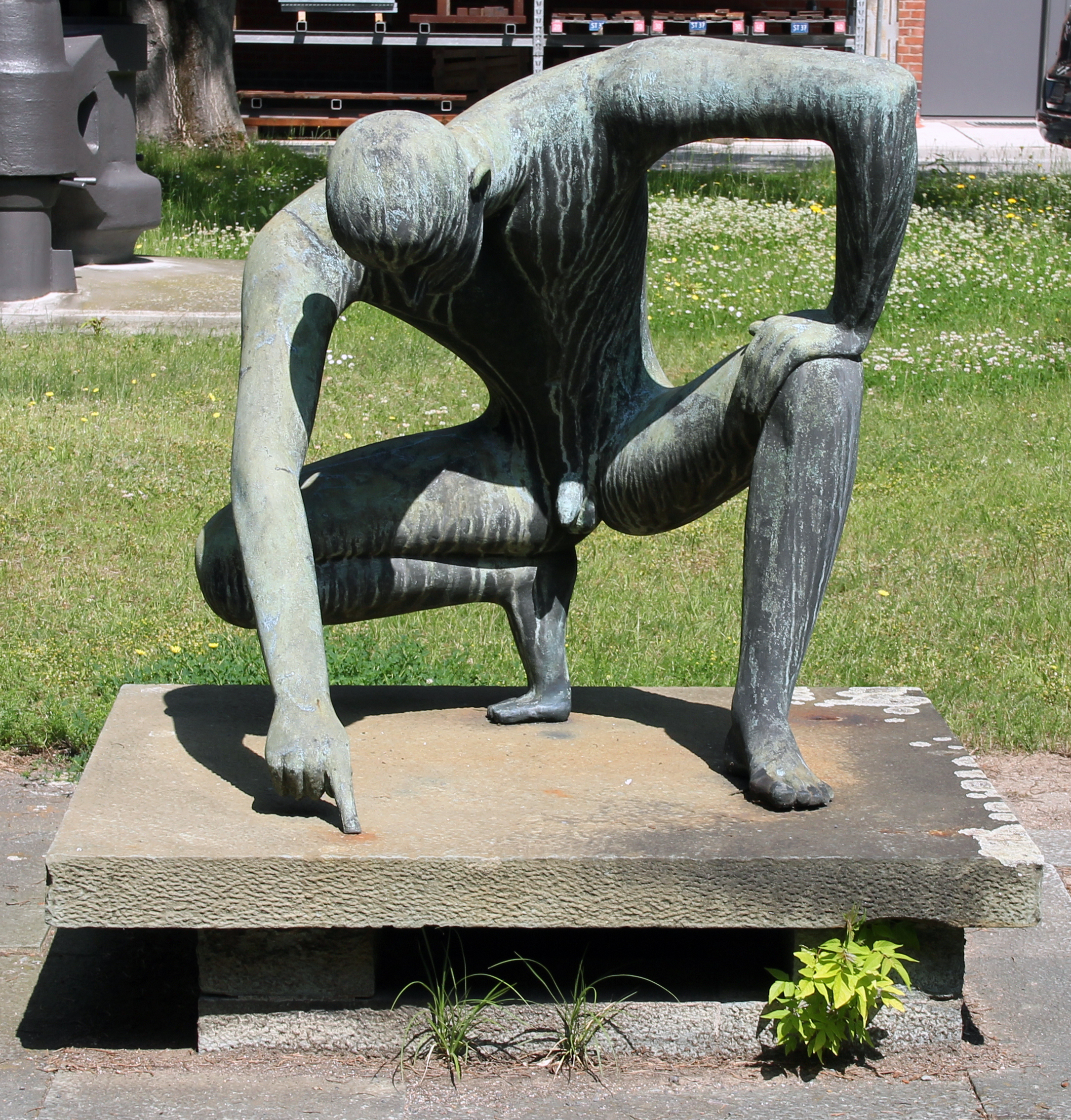 Sculpture, "Archimedes" by Karl-Heinz Krause, 1962, Unter den Eichen 87, Berlin-Lichterfelde, Germany